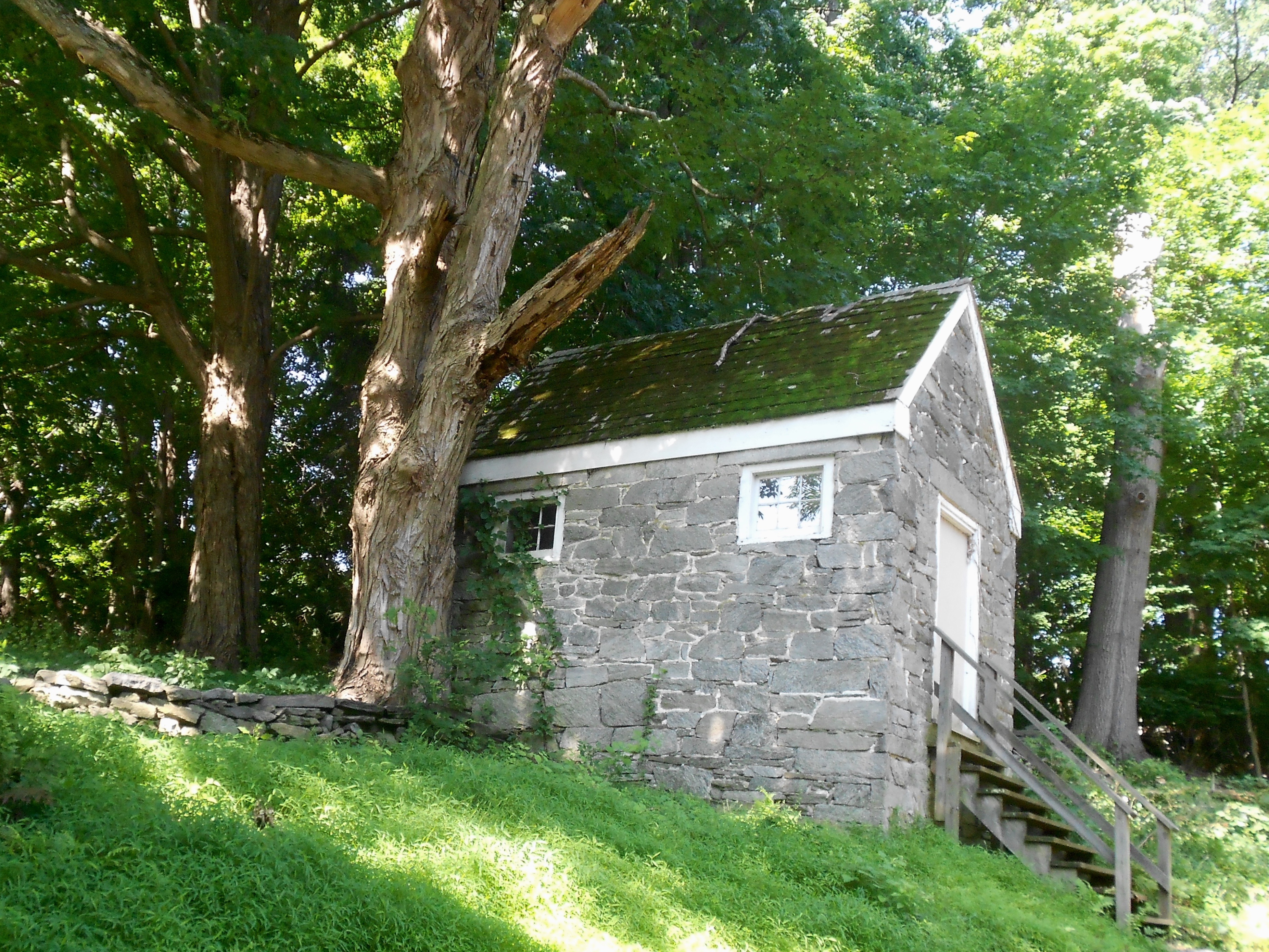 Eight-seat "necessary" on the estate of Thomas Leiper. Obviously built stronger than a brick shithouse. The estate is listed on the NRHP